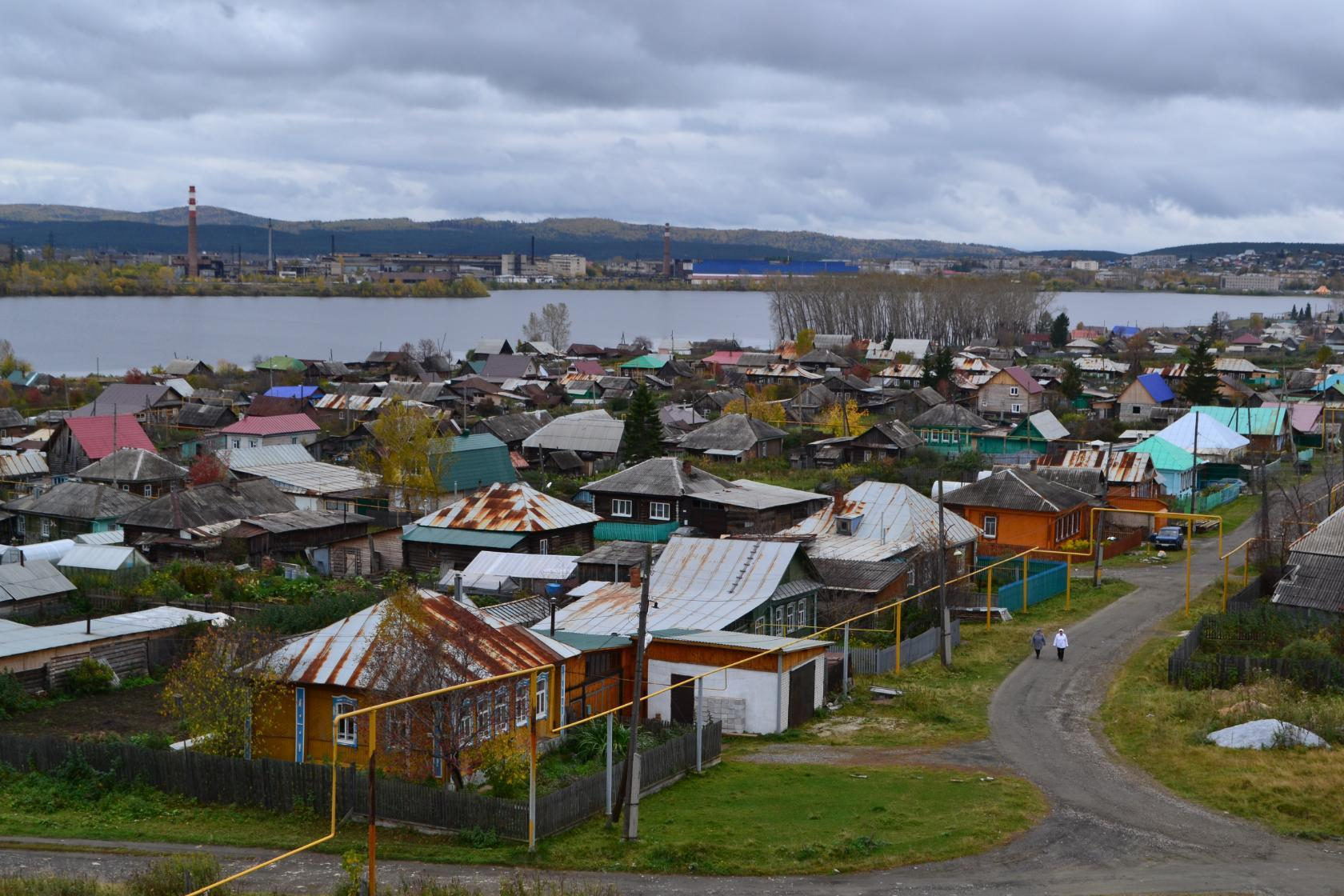 Russia. Verkhny Ufaley